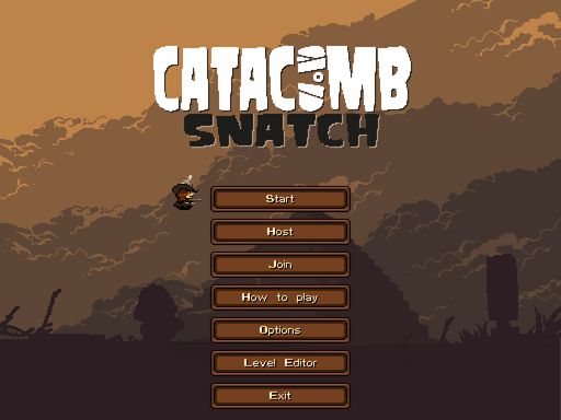 Catacomb Snatch Community Project of there menu of the game.